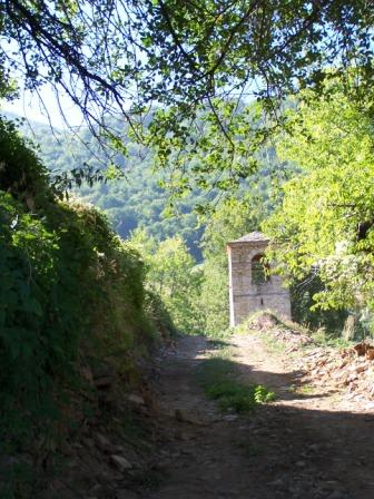 Greece Aug 24, 2006. Taken by Mr. Dedes. The bell tower of Old Drosopigi, the only thing in the old village that is really still standing.